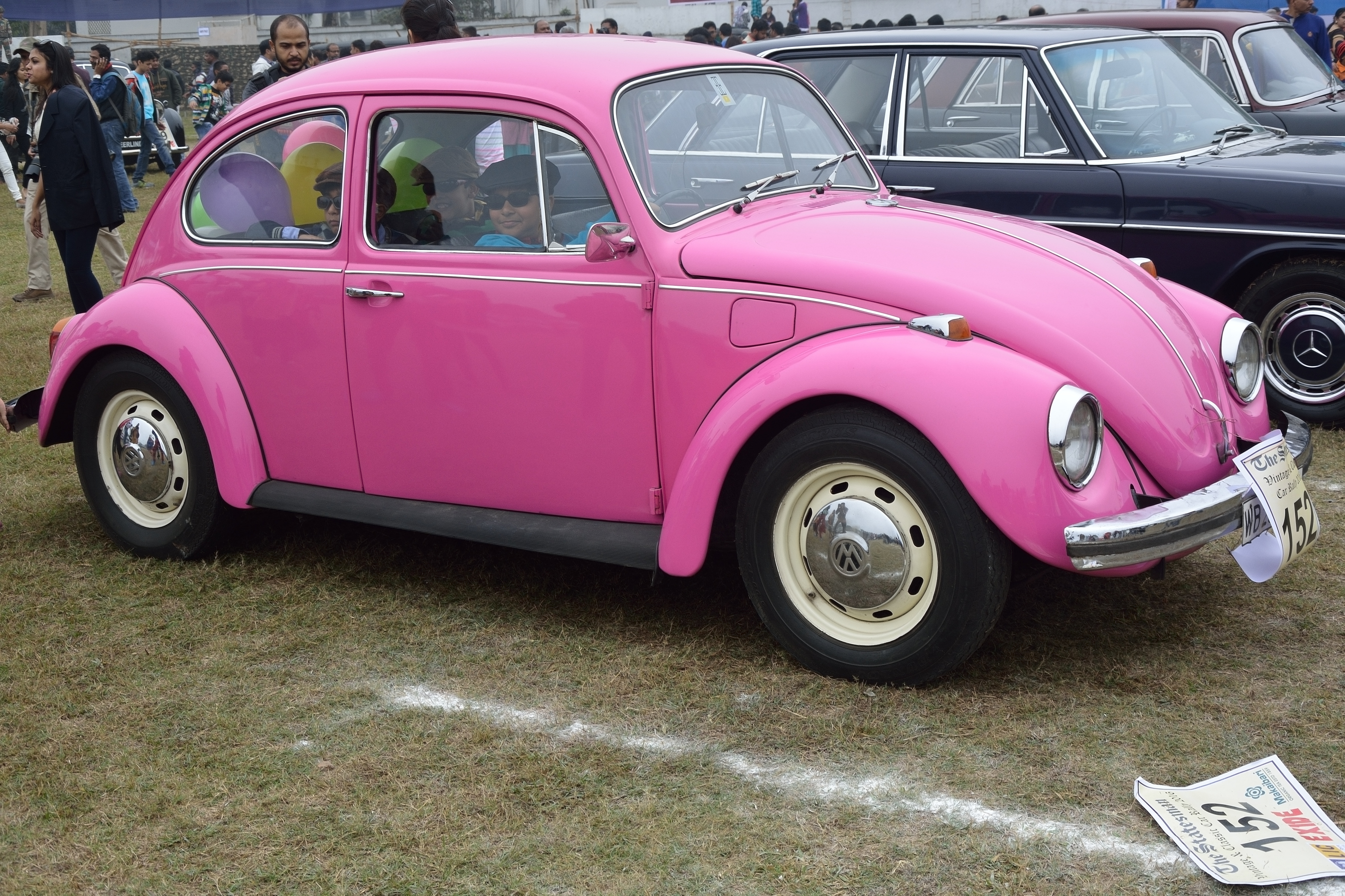 1970 Volkswagen